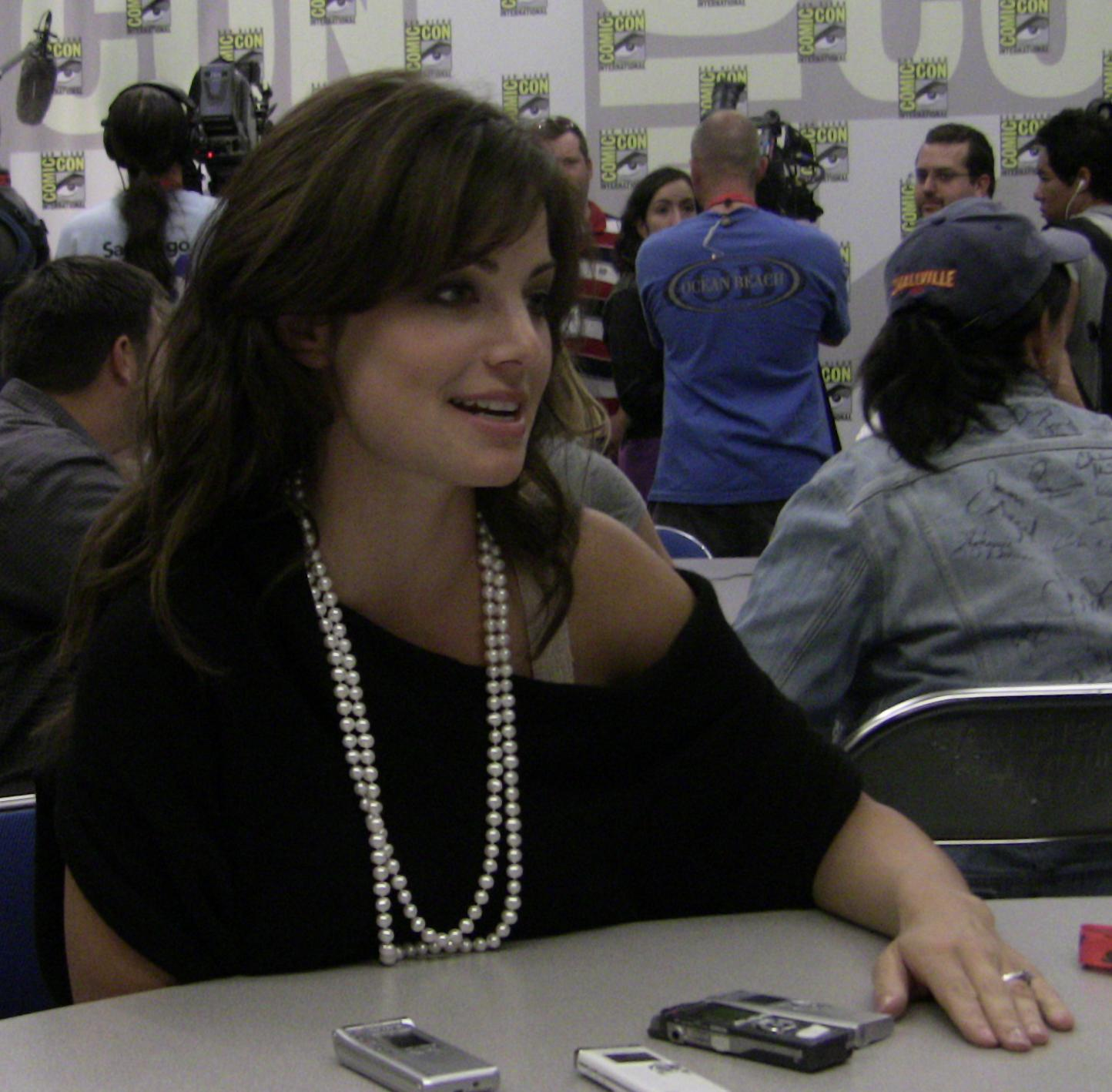 Actress Erica Durance – Comic-Con 2009 - Smallville - San Diego, Calif. - July 26, 2009